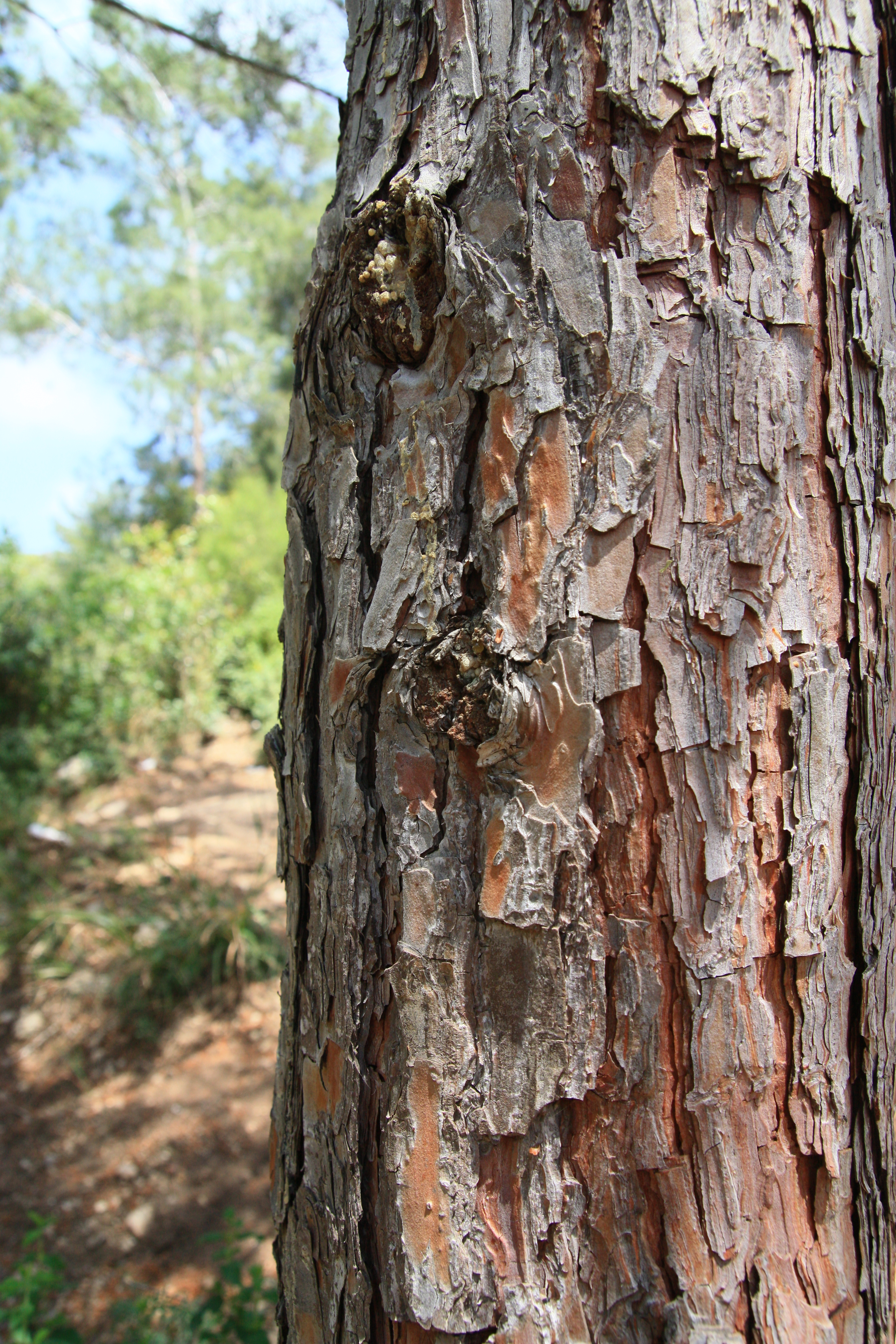 Mount Carmel